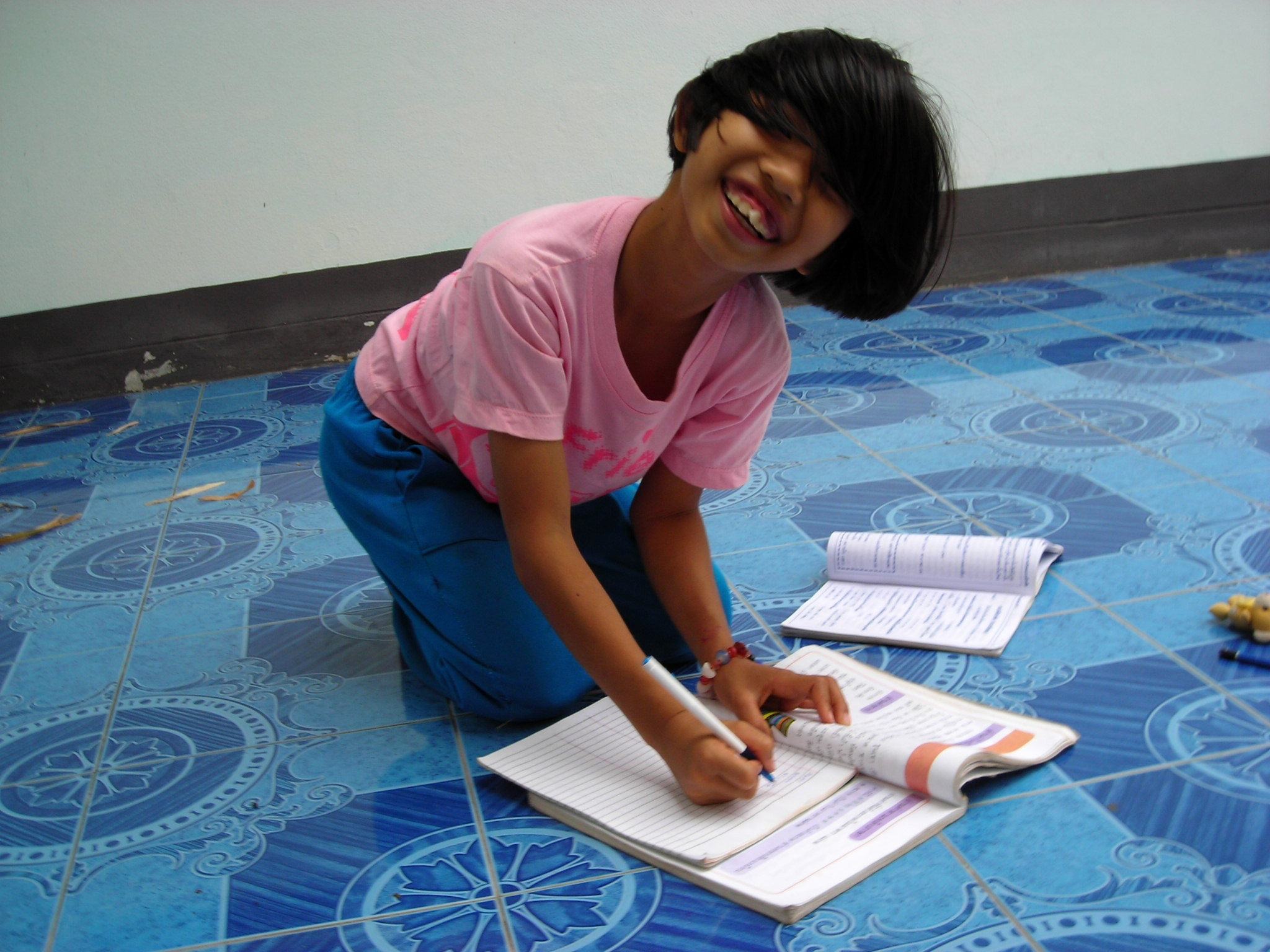 Thai pupil named Dom from Na Khun Yai doing home work.